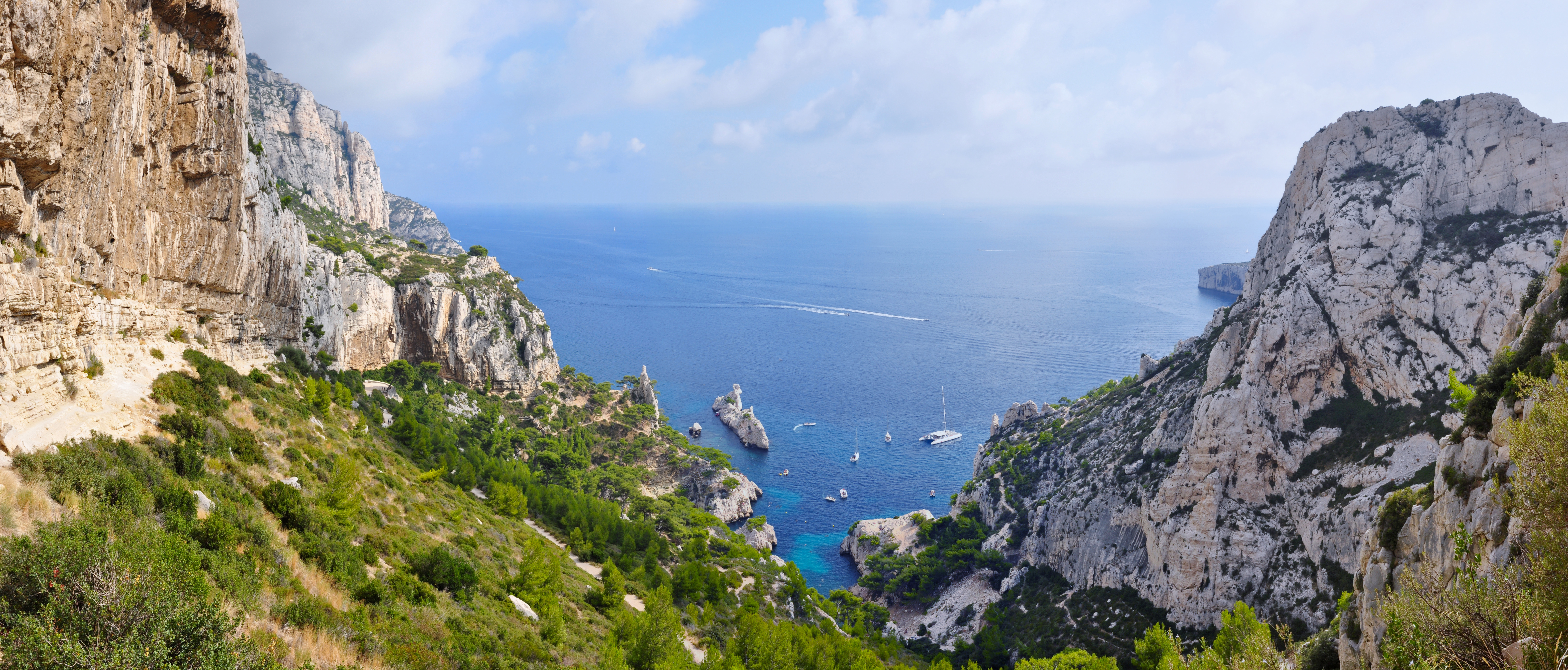 breathtaking view into the Calanque of Sugiton near Marseille, seen from a hiking trail